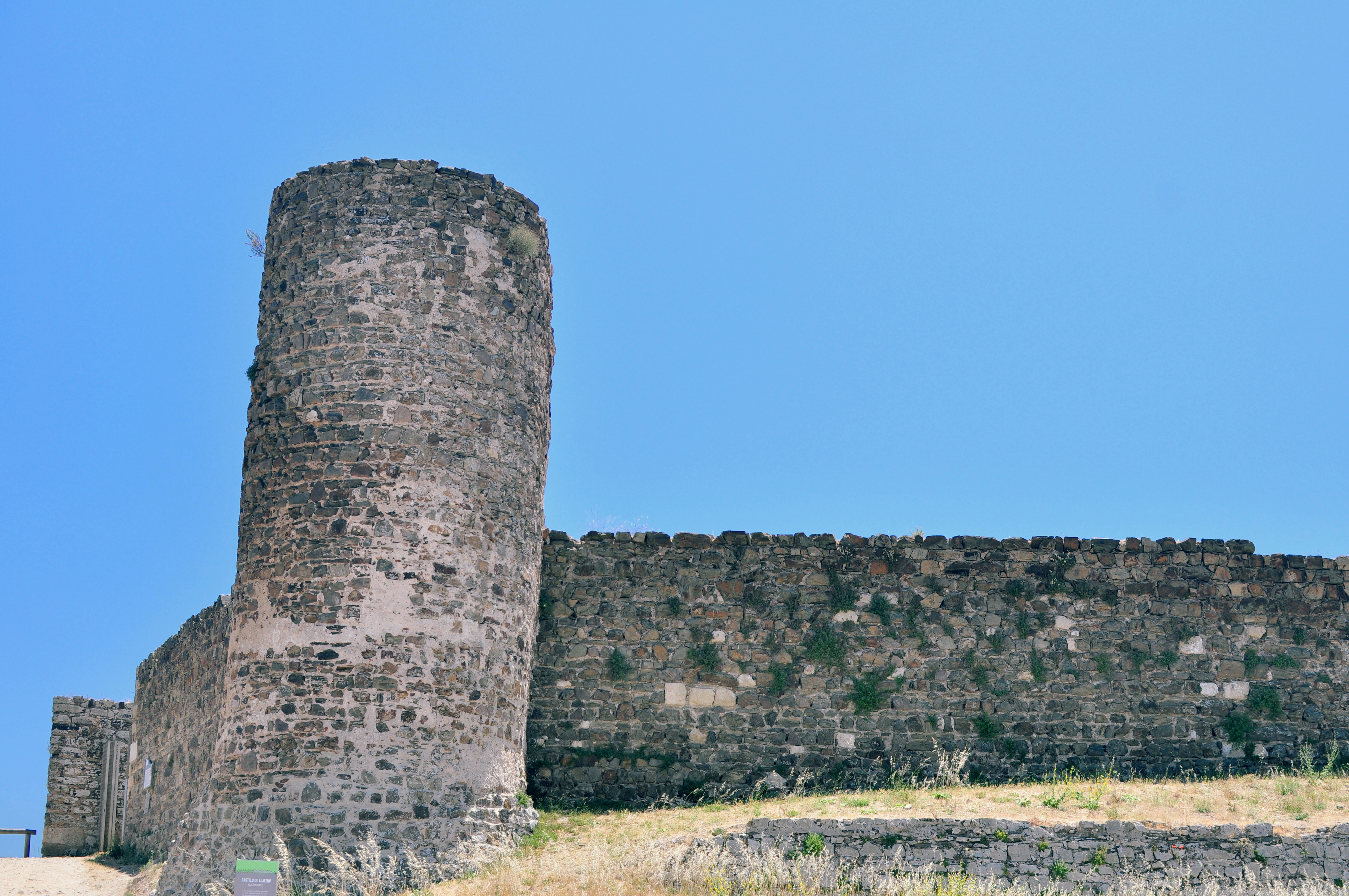 Aljezur's castle was built and occupied by the moors during XII and XIII centuries. This was the last moor castle to fall to christian kings in Portuguese territory, though the exact date is not clear (often claimed to be 1249, but other accounts put it as early as 1242). This is one of the seven castles represented in the Portuguese shield (and flag). The castle was abandoned in the XVI century and it suffered many damages in the great earthquake of 1755. (information from and Wikipedia)